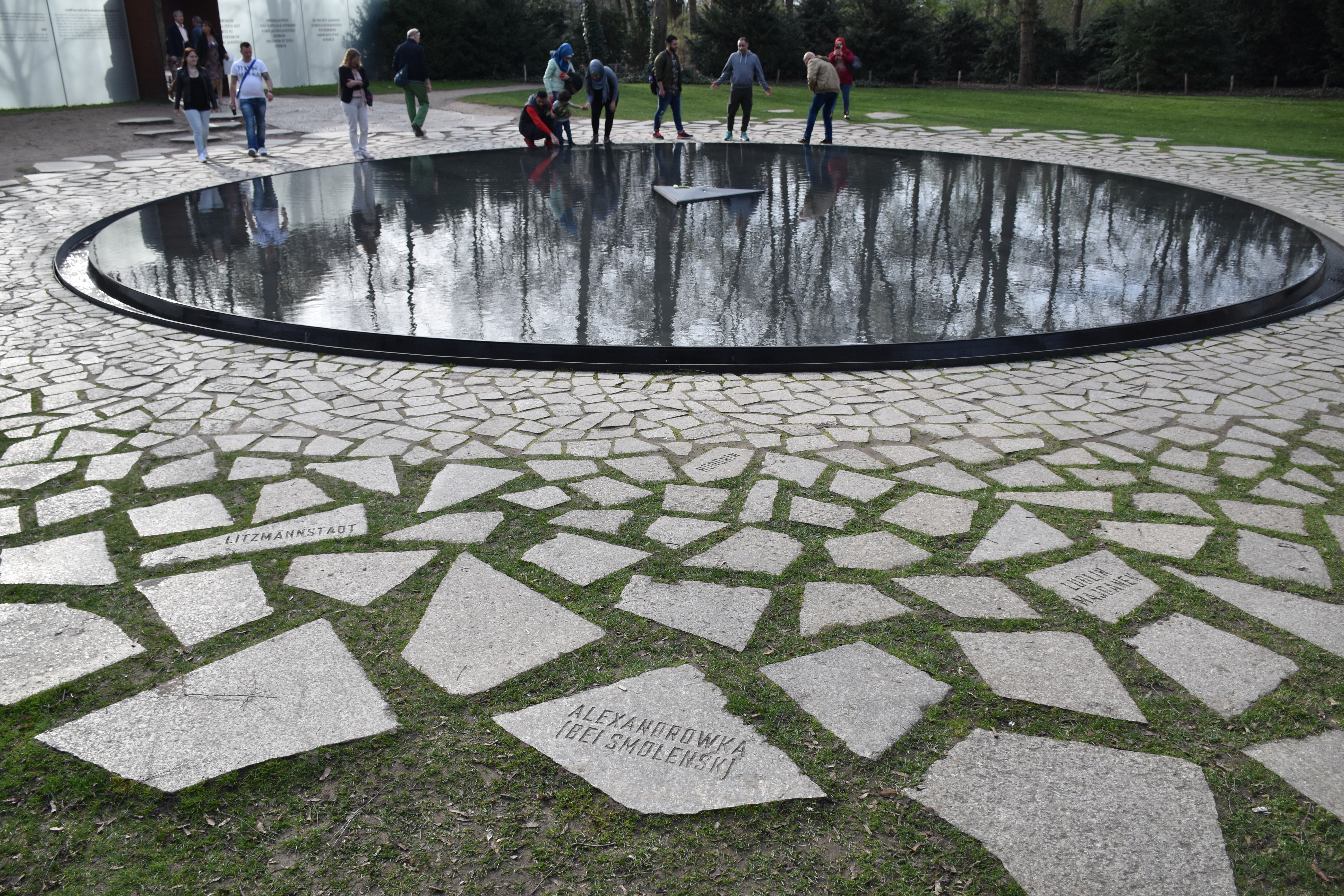 Memorial to the Sinti and Roma in Berlin-Tiergarten.